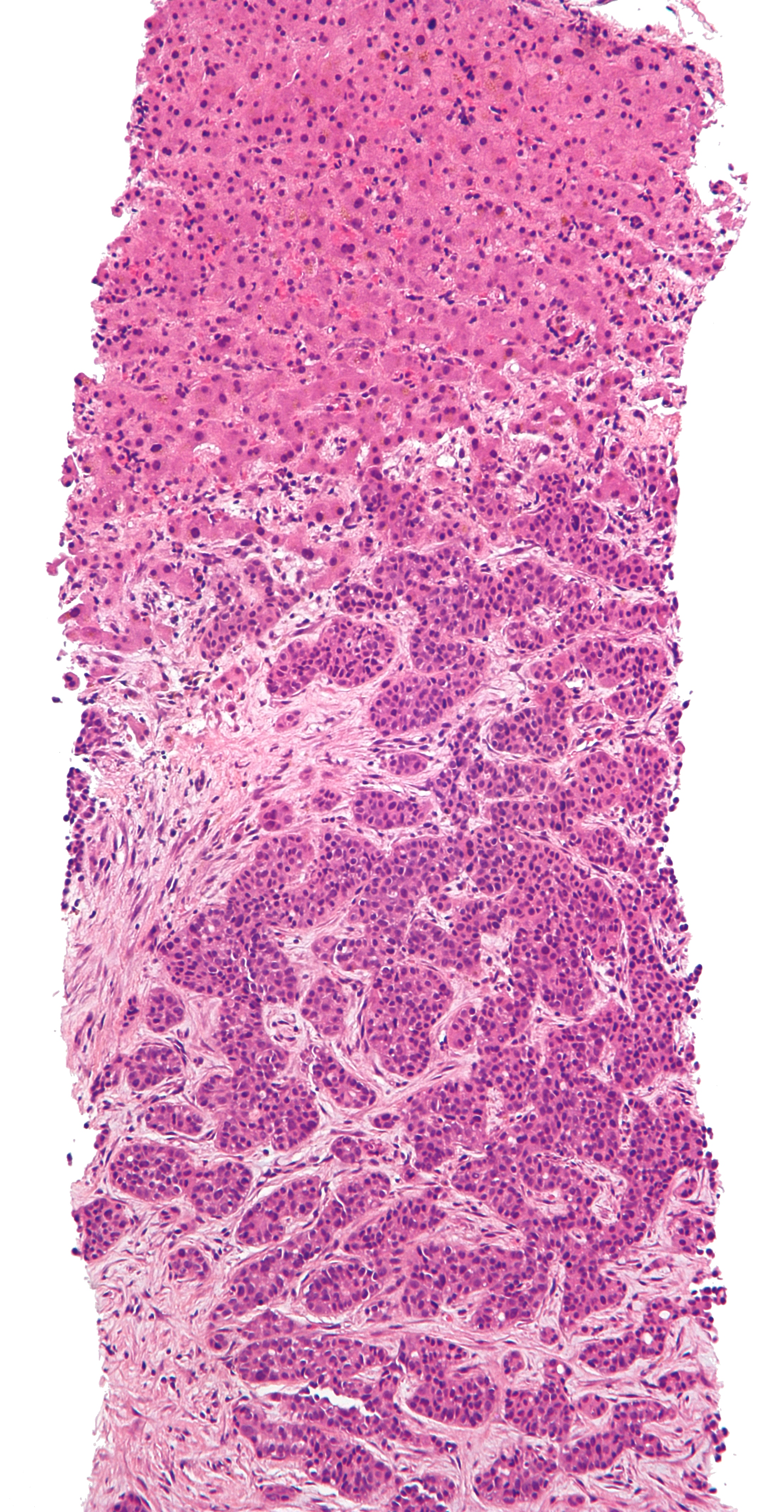 Low magnification micrograph of a metastatic adenocarcinoma to the liver. Liver biopsy. H&E stain. The adenocarcinoma (lower two-thirds of the image) is moderately differentiated; morphologically, it consists of poorly formed glands and is surrounded by a desmoplastic stroma. The liver parenchyma (upper one-third of the image) has cholestasis (yellow pigment = bile) due to mass effect from the tumour.